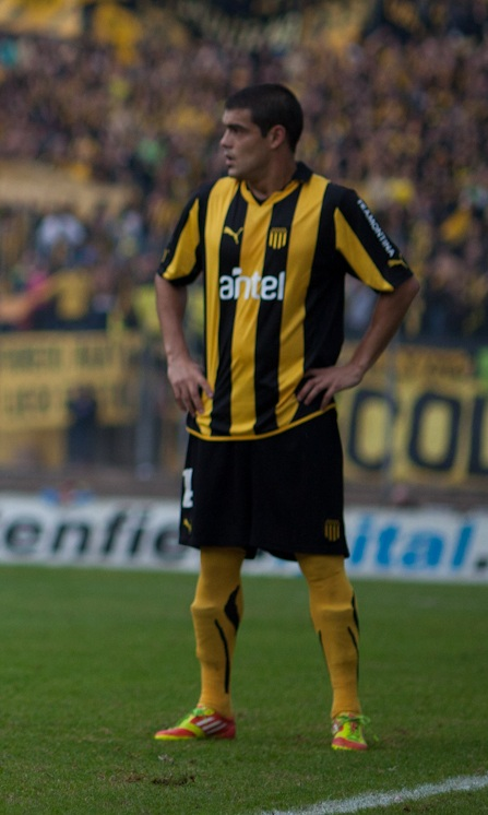 Uruguayan football player Luis Aguiar, during a uruguayan derby while playing for Peñarol, at the Estadio Centenario.